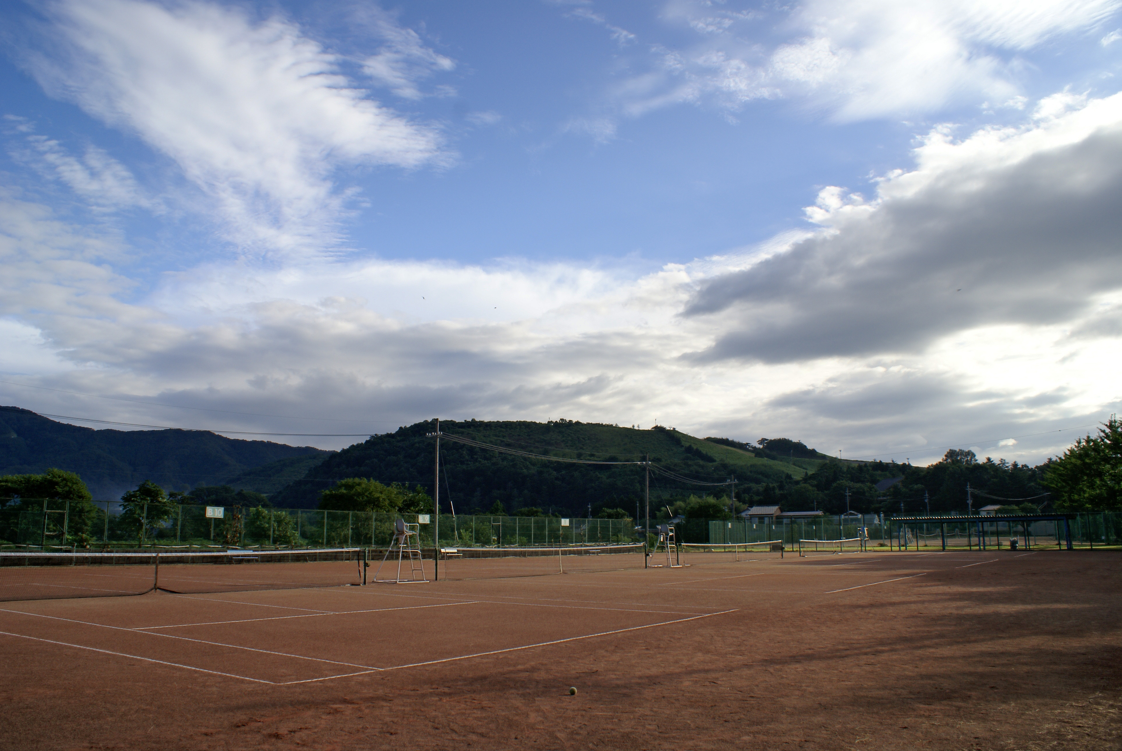 Kannabe highlands in Toyooka, Hyogo prefecture, Japan